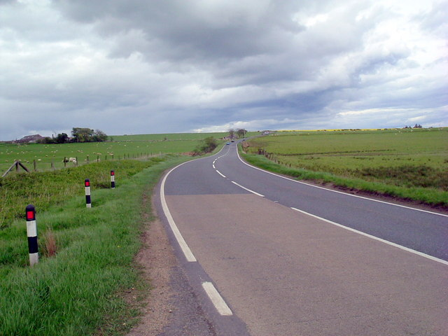 A952 northbound, near Footieburns